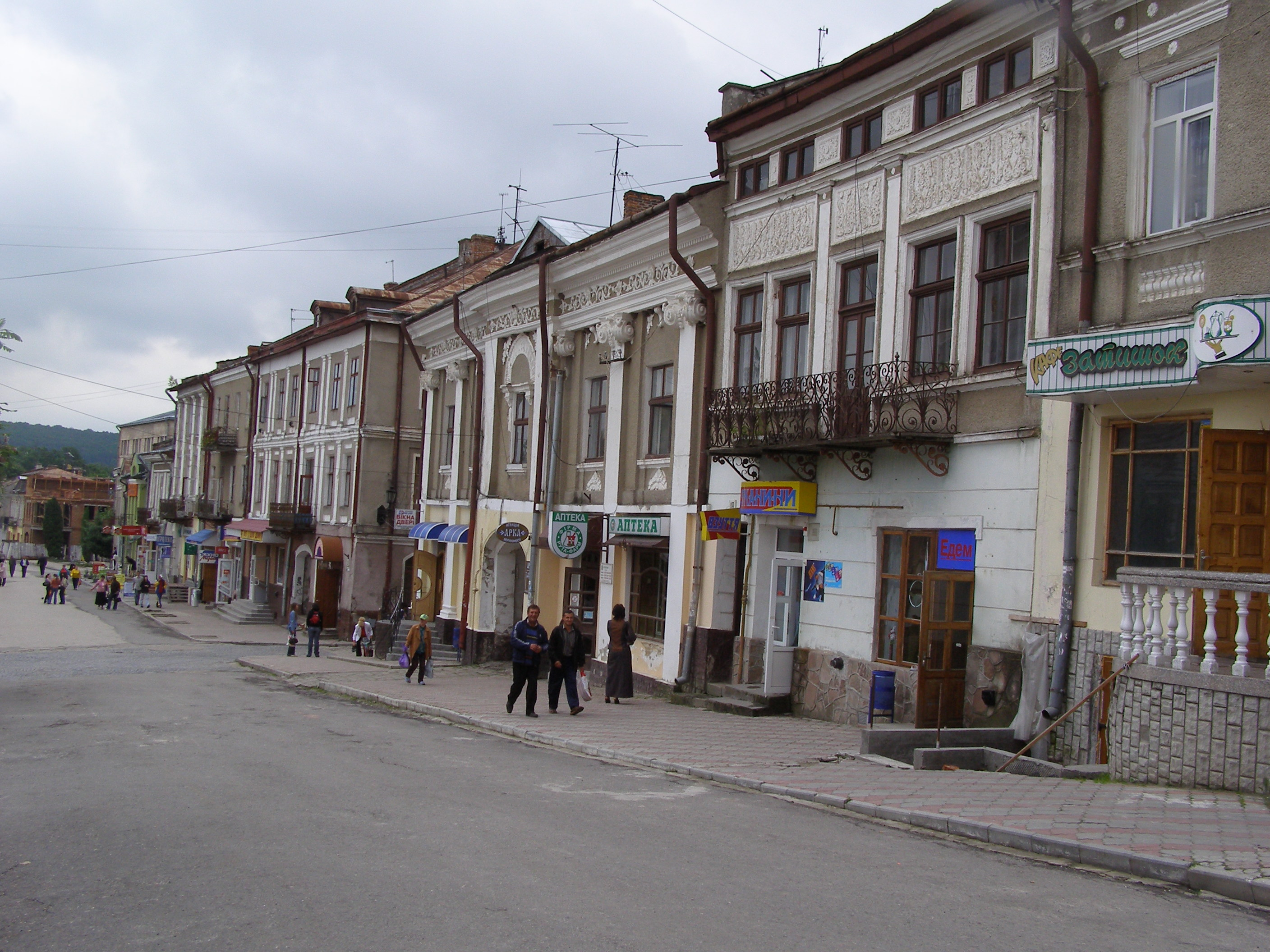 Center of Berezhany, Ternopil oblast, western Ukraine.